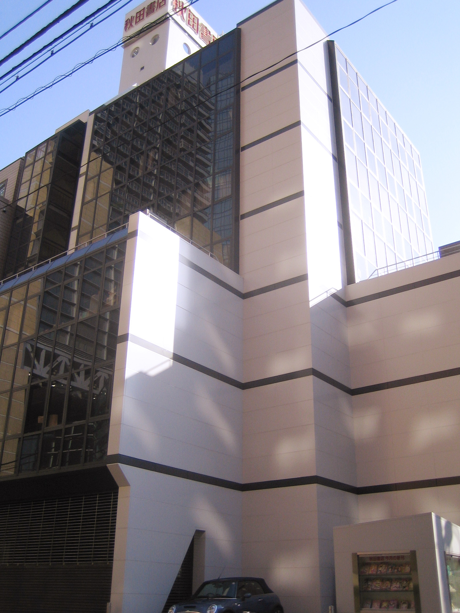 Akita publishing Co., Ltd. Shoten (秋田書店 Akita Shoten), a publisher in Chiyoda, Tokyo, Japan